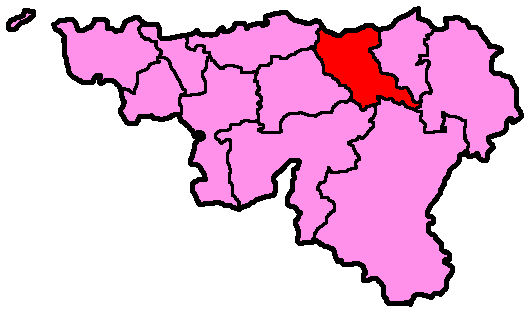 Location of the constituency of Huy-Waremme in Wallonia